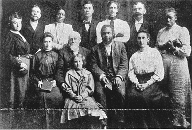 Image published in 1908. Obtained from image is now in the public domain.